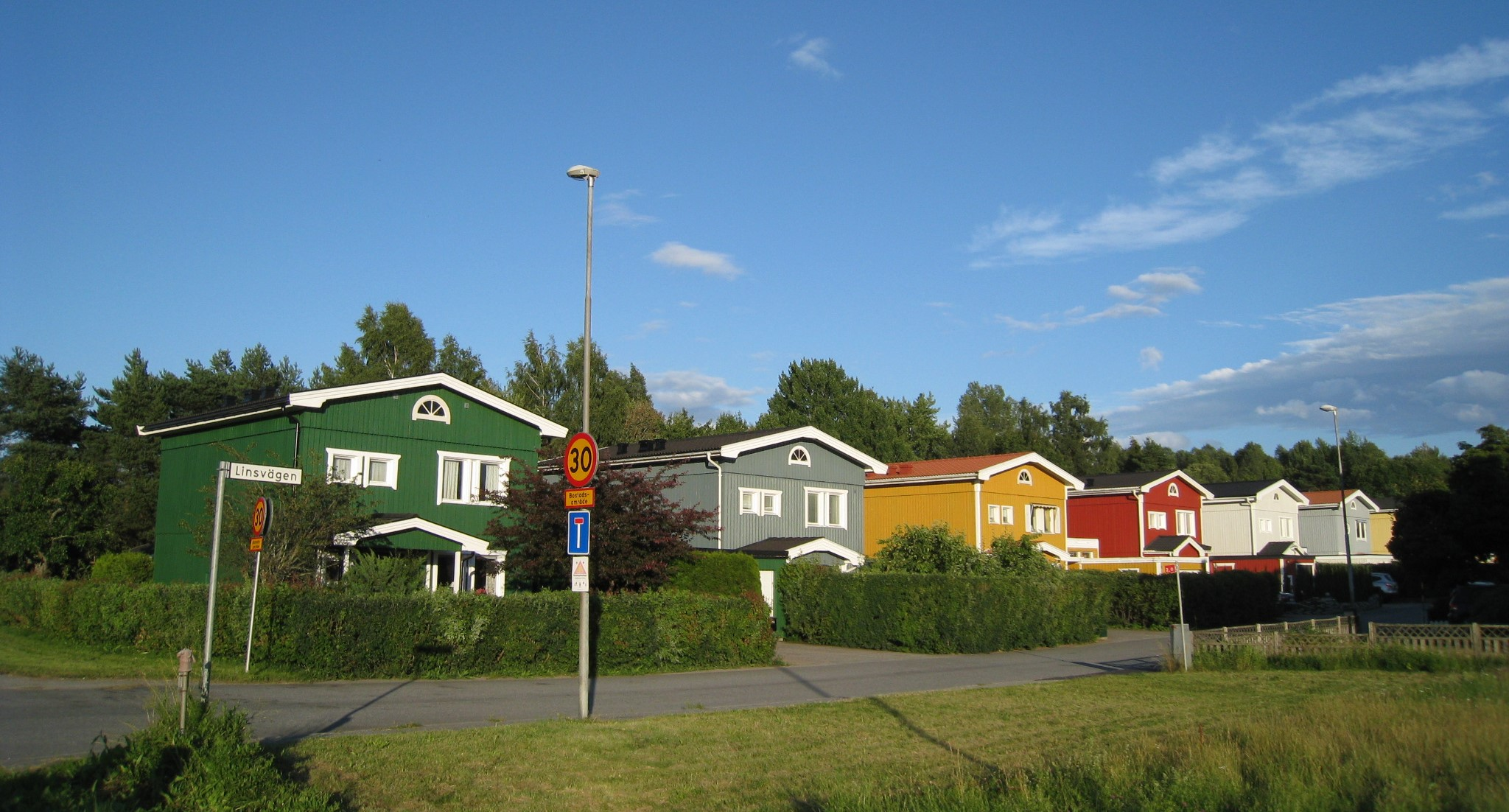 Villor vid Linsvägen i Viksjö, Järfälla kommun, Stockholms län.